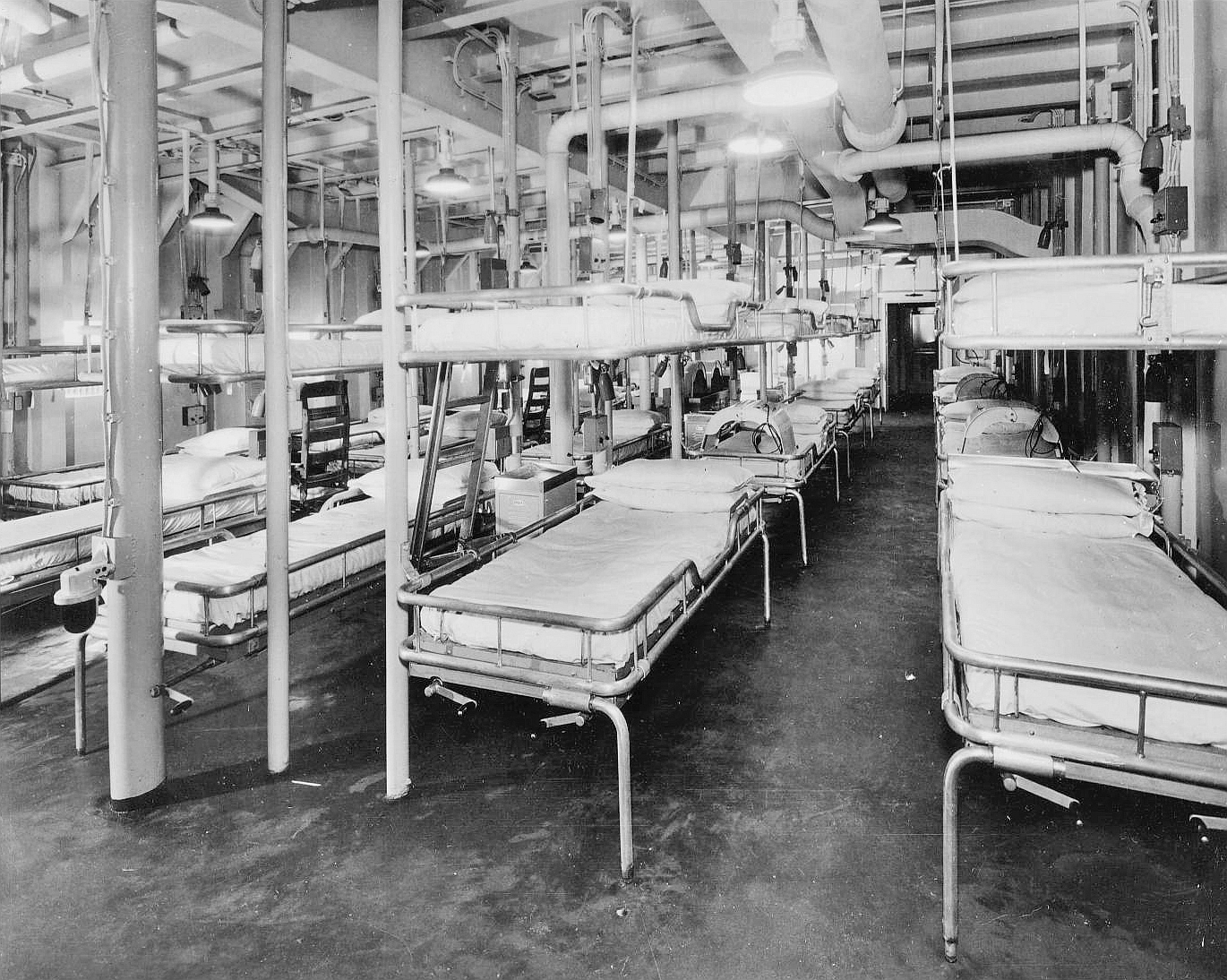 Hospital ship USS Repose (AH-16) commissioning on 26 May 1945. The 52-bed ward.